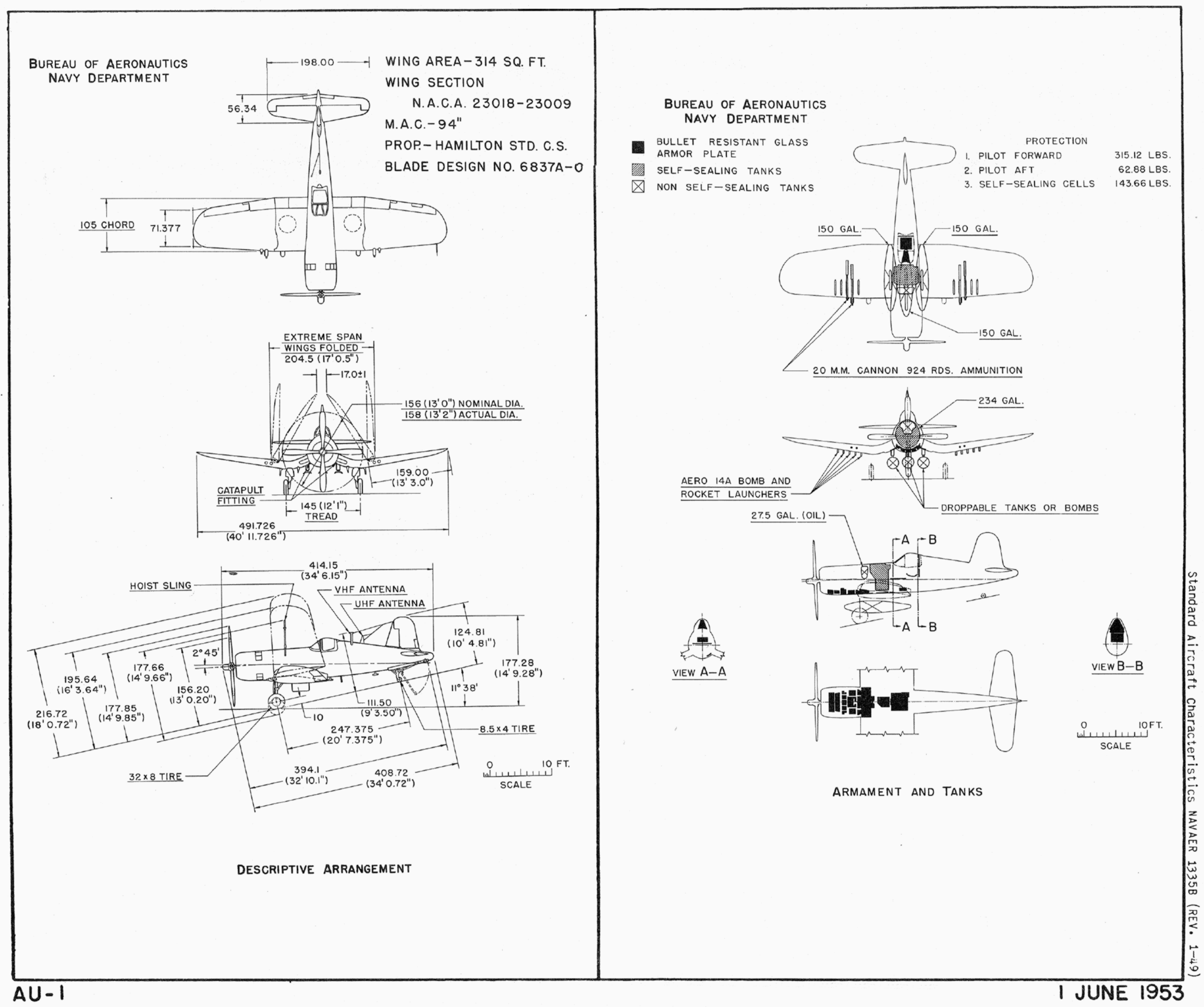 Standard Aircraft Characteristics (SAC) for the Vought AU-1 (F4U-6) Corsair.